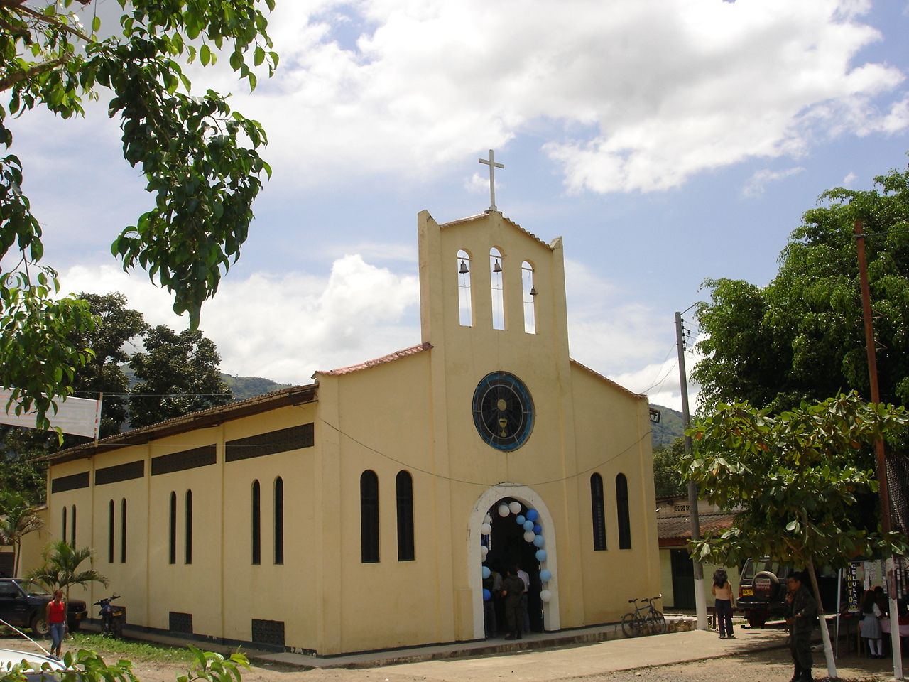 Guaduero Church.